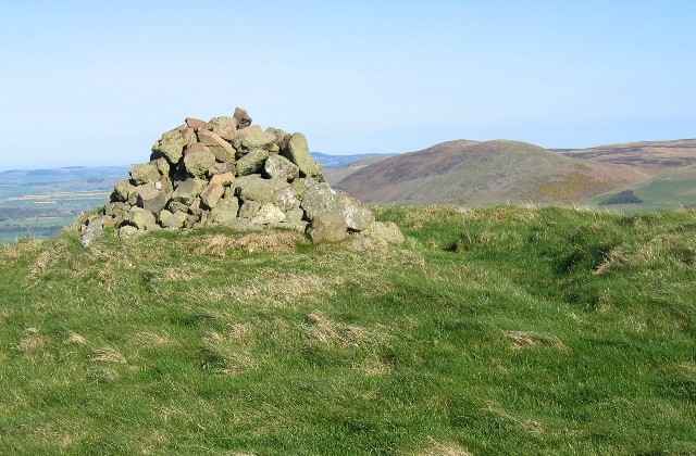 Kilham Hill. Looking east over the summit cairn towards Yeavering Bell.